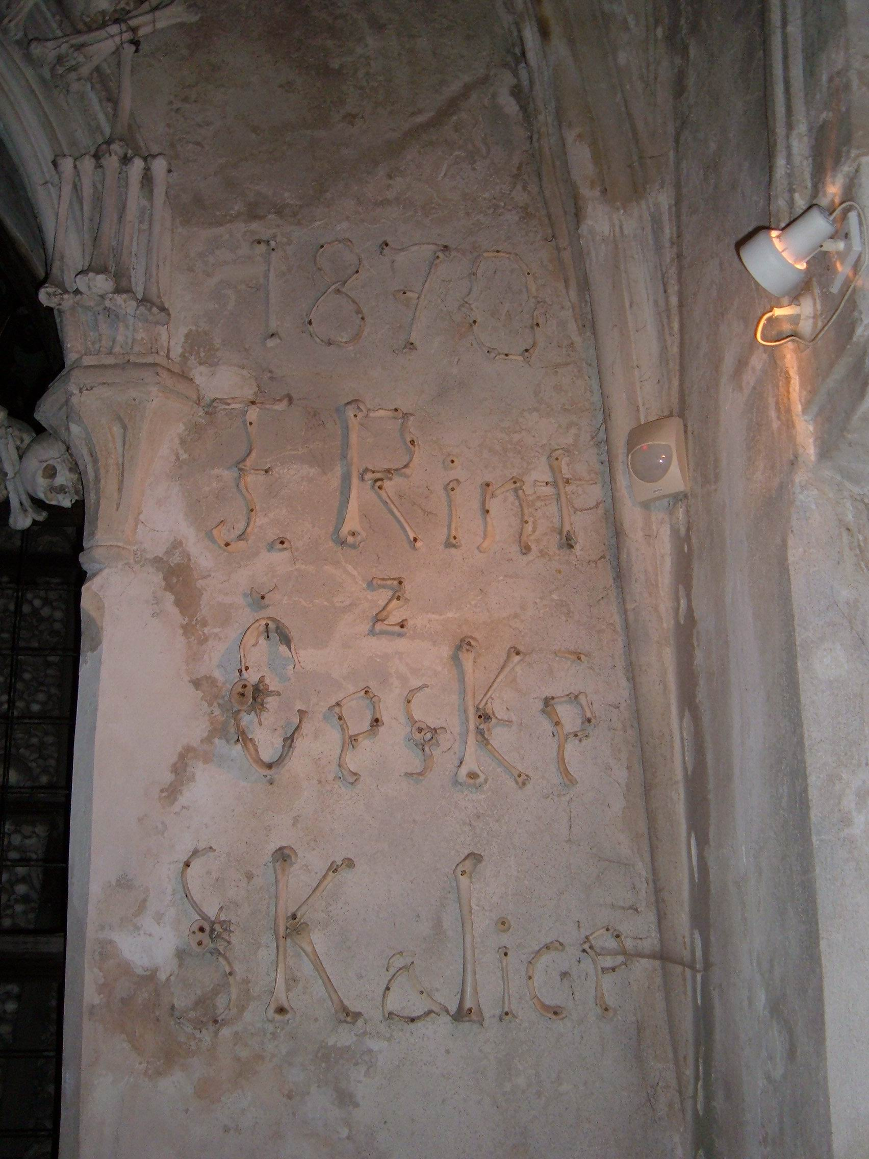 The signature of František Rint inside the Sedlec Ossuary in Kutná Hora, Czech Republic.